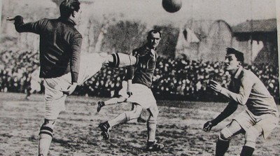 France - Italy, friendly football match, 20 february 1921 in Marseille.France, dark jersey.